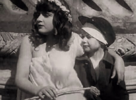 Kathlyn Dempsey (left) and Catherine Lund in The Story of Jewel City - cropped screenshot